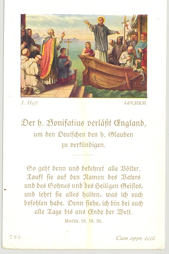 Prayer card containing reproduction of painting by Johann Hess, of Saint Boniface leaving England, and a quote from Matt. 28-19-20.